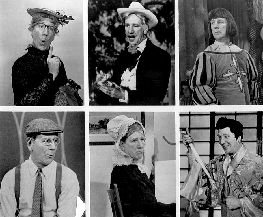 Photo montage of some of the many comedic characters played by Durwood Kirby during the course of The Garry Moore Show. Kirby was a good comedic actor and was the source of many laughs on the program. Top from left: "Jennie", Old Southern Colonel, Prince Charming. Bottom from left: "Joe Dribble", "Whistler's Mother", and a Japanese movie star.